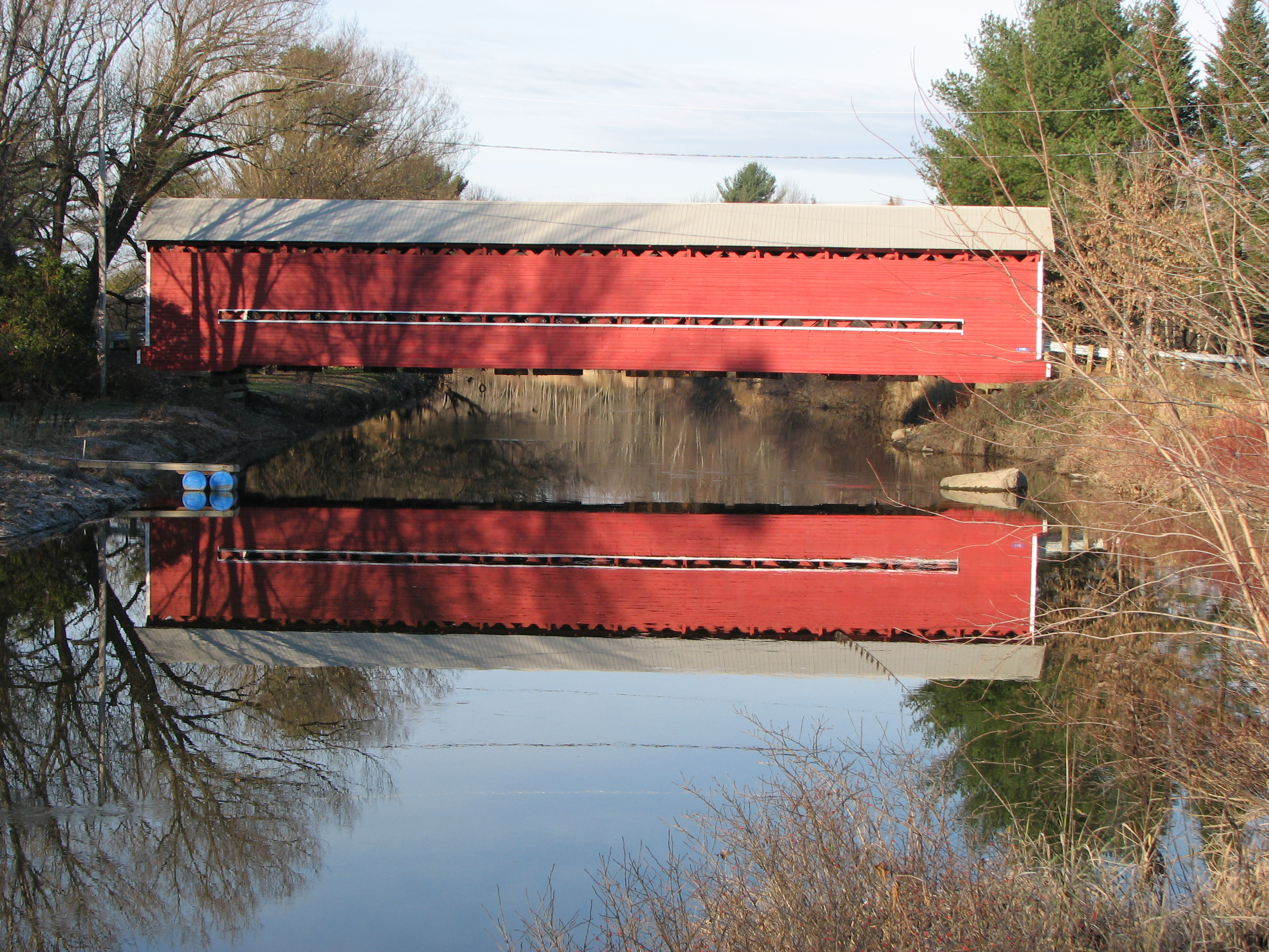 Decelles Bridge, Brigham, QC - Side view